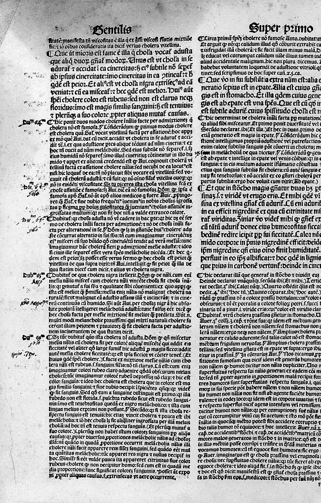 Folio 42 verso (left hand column) Rare Books